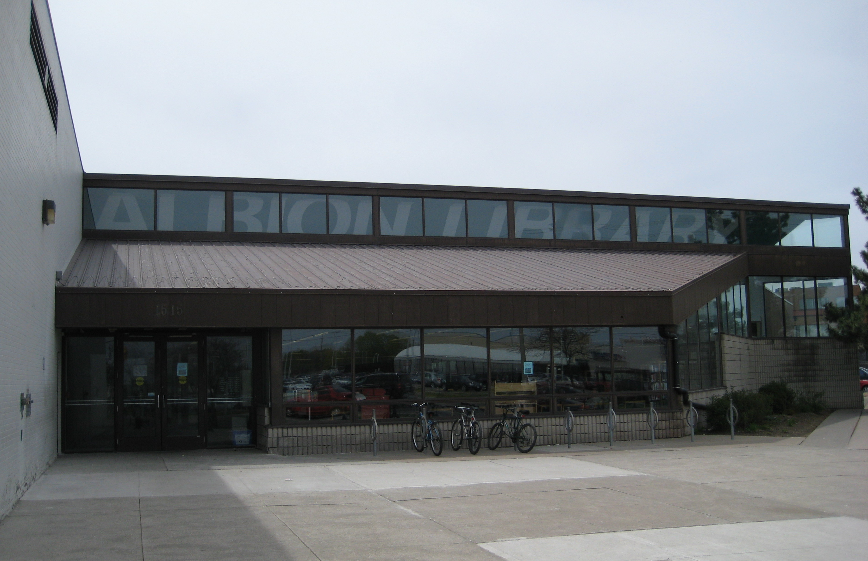 TPL Albion